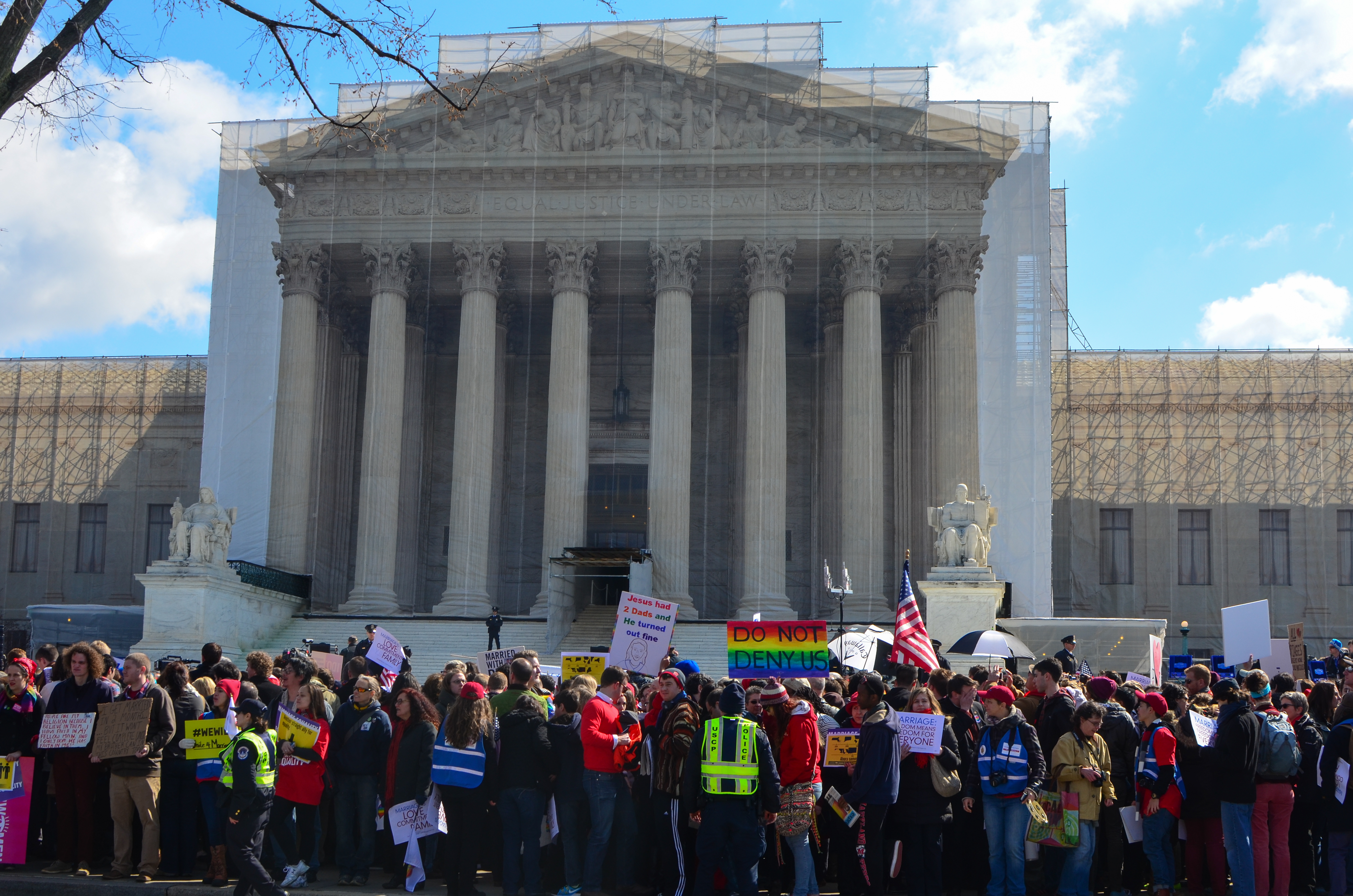 Demonstration against California Proposition 8 (2008) in front of the US Supreme Court on March 26, 2013, the day oral arguments were heard in Hollingsworth v. Perry.